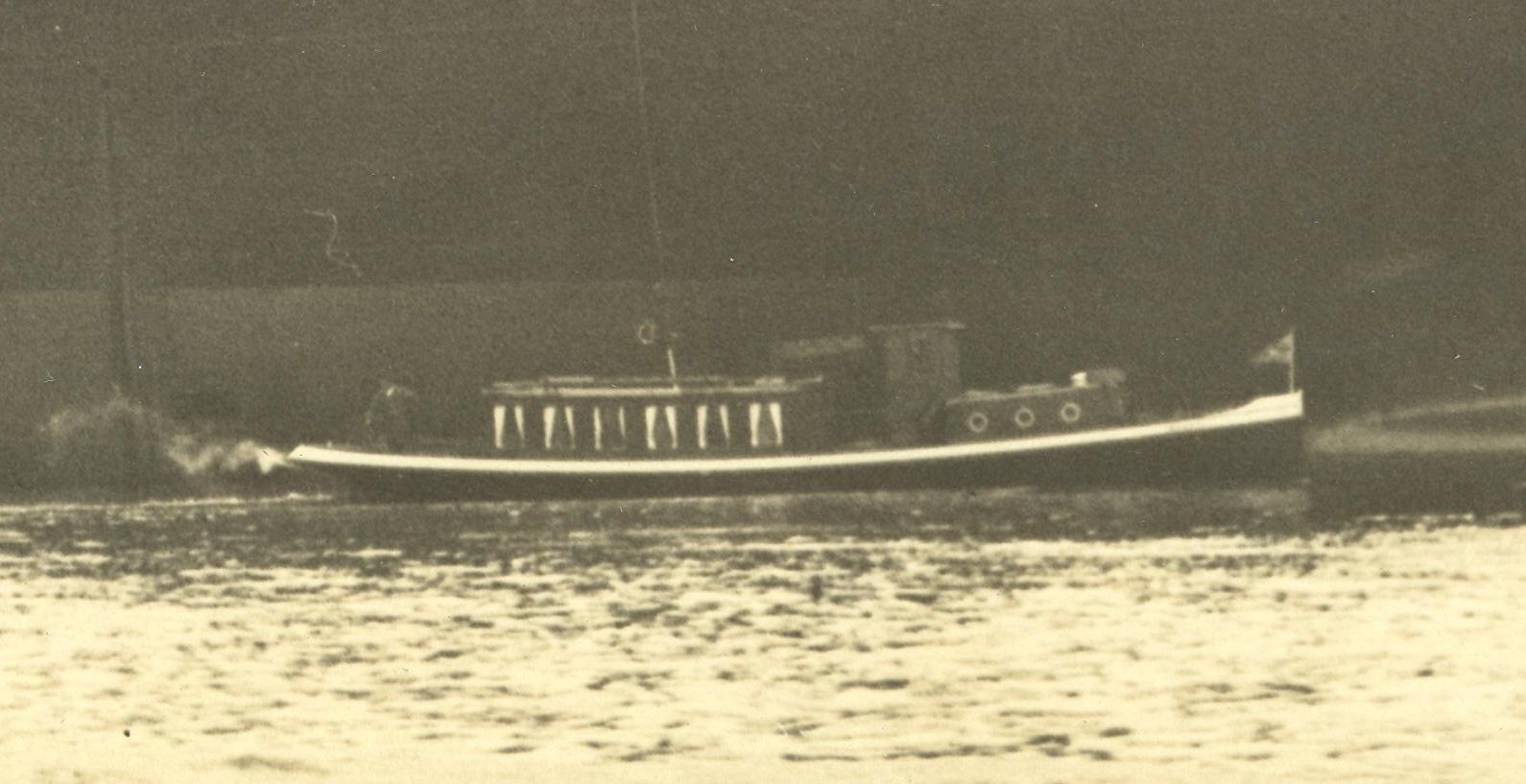 De Salonboot Avanti 1914, in andere kleuren